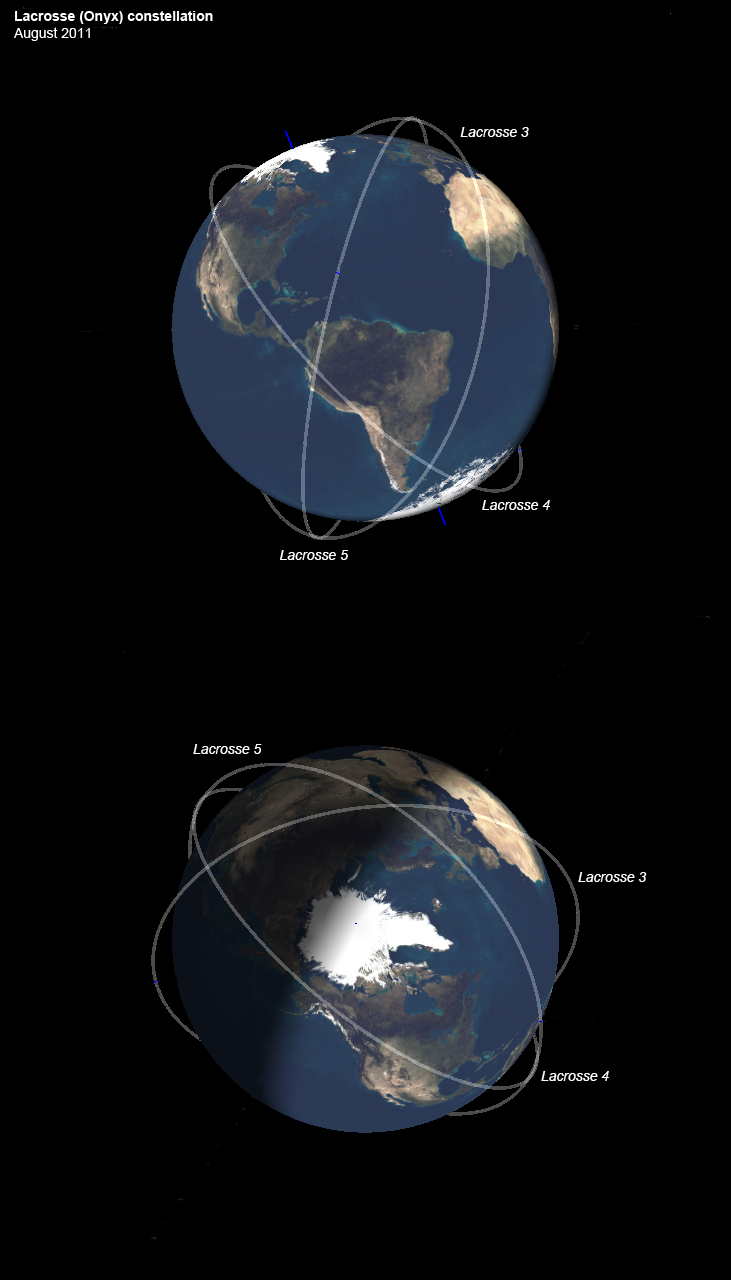 Lacrosse satellite consetllation as of August 2011